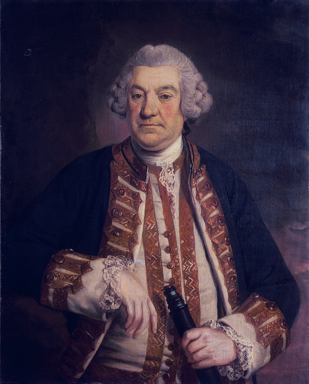 Geary was a rear-admiral under Hawke in 1759, but was not present at the Quiberon Bay action that November. In May 1780 Sandwich appointed him, then 70-years-old, to the command of the Channel fleet on the death of Sir Charles Hardy, during a critical period of threatened French invasion. The fleet was at sea for 76 days, and on his return to Spithead in August Geary, worn out, gave up the command for health reasons. Geary may be credited with holding the Channel Fleet together at the navy’s lowest point in the second half of the 18th century. He is shown half-length full-face and is wearing flag officer’s full dress uniform, 1774–87. He is holding a telescope in his left hand and his right elbow rests on a rock. The date of about 1780 and stylistic considerations rule out a previous attribution to Francis Cotes who died in 1770.